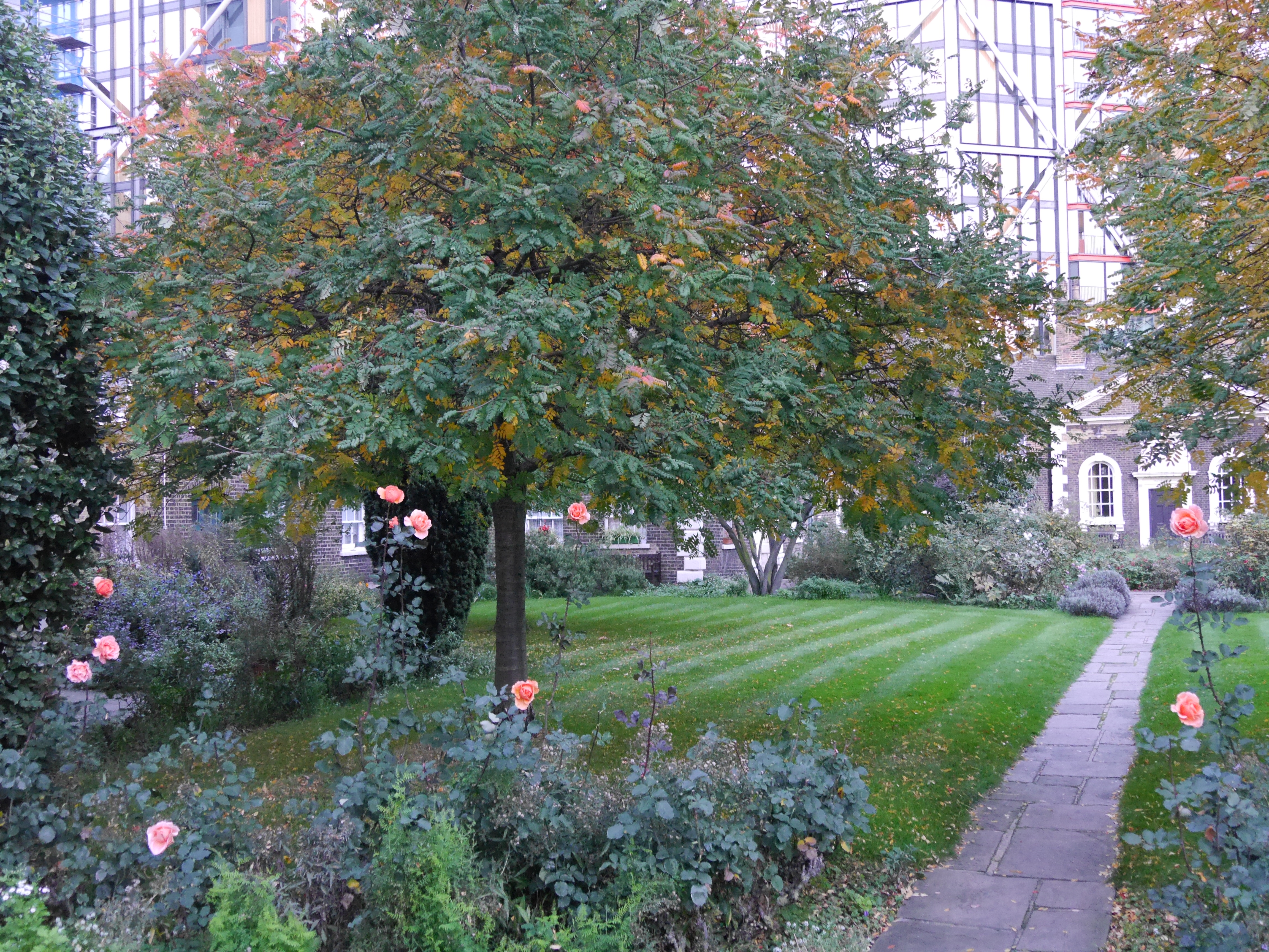 Hopton's Almshouses, October 2014